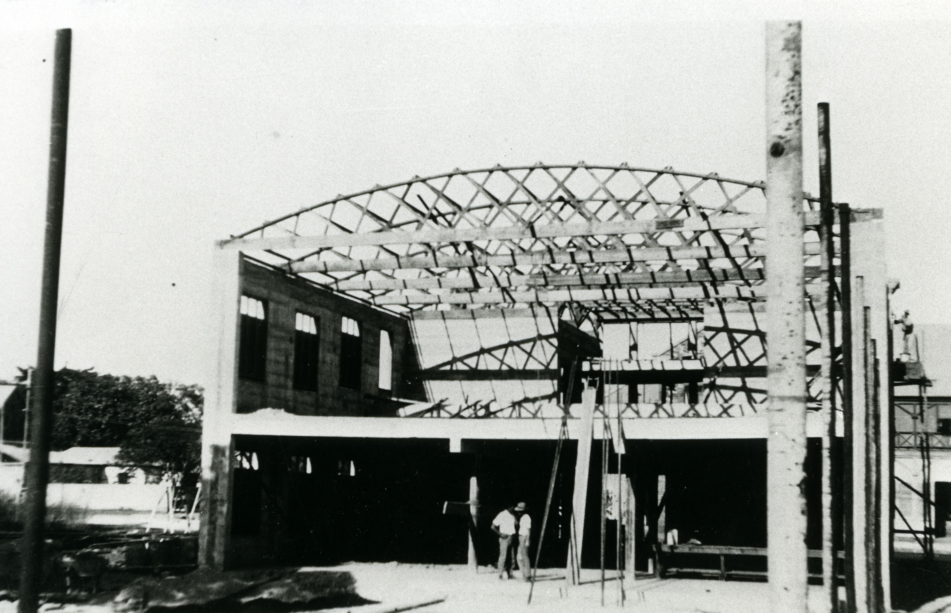 The Star Theatre under construction. The builder was Harold Snell. Previously picture shows were held in the Don Picture Show on the corner of Cavenagh Street and Bennett Street which consisted of a high galvanised iron fence, a slab of cement, seating and was completely open air. Later H. Snell built a hotel on that site after the Starr Theatre was opened. The Star Theatre was 2/3 under cover, but because there was no air-conditioning in those days, the area immediately in front of the screen was uncovered. Tom Harris became the proprietor. In the days of the silent films he used to sing to entertain the audience during the interval. His future wife, who was then Heather Bell, played the piano. (PH0233-0018)